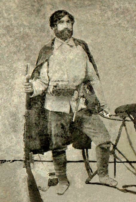 Yanko Ivanov Mandradzhiev